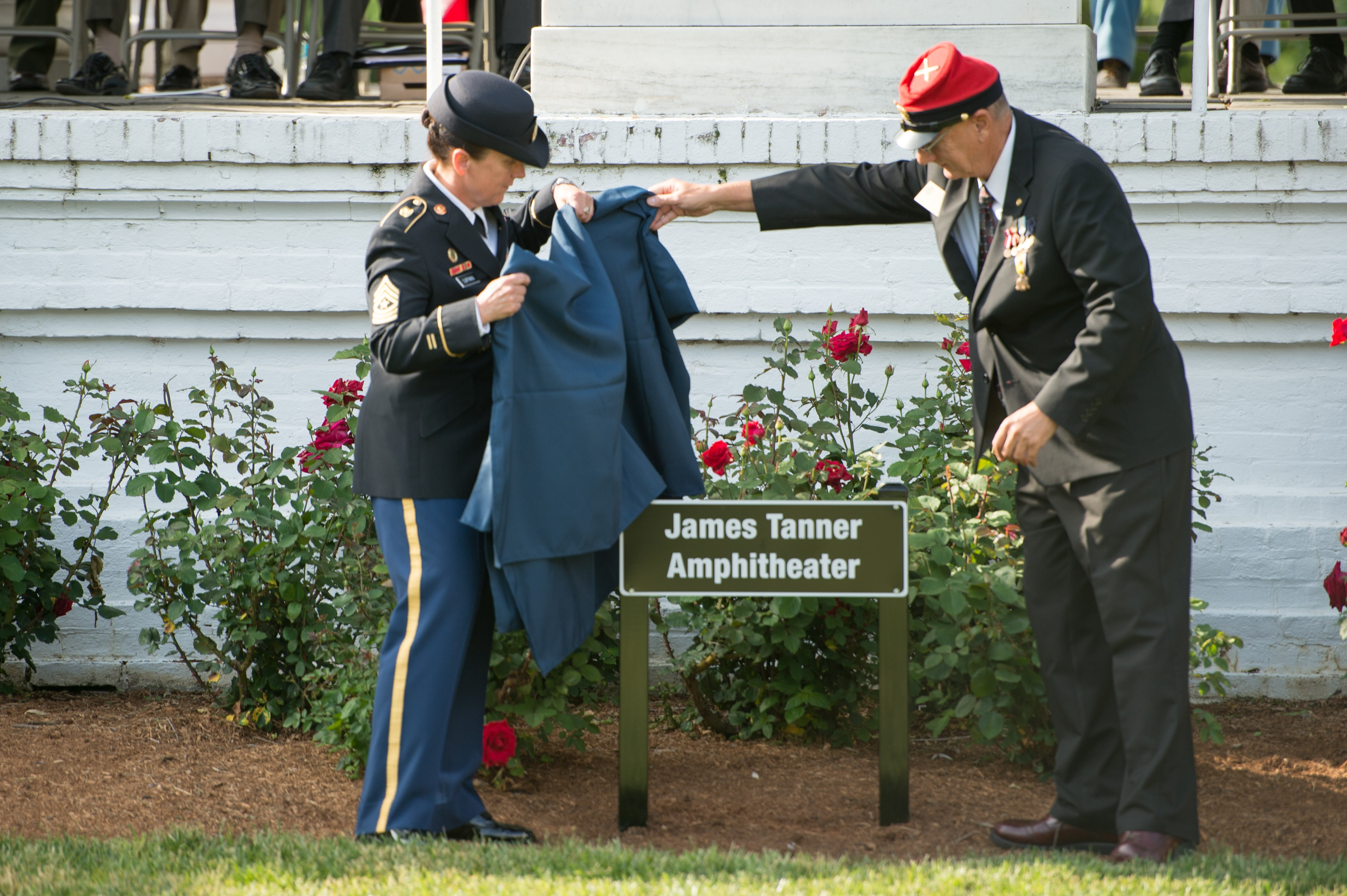 Unveiling of the plaque renaming the Old Amphitheater as the James R. Tanner Amphitheater, at Arlington National Cemetery in Arlington County, Virginia, in the United States on May 30, 2014.